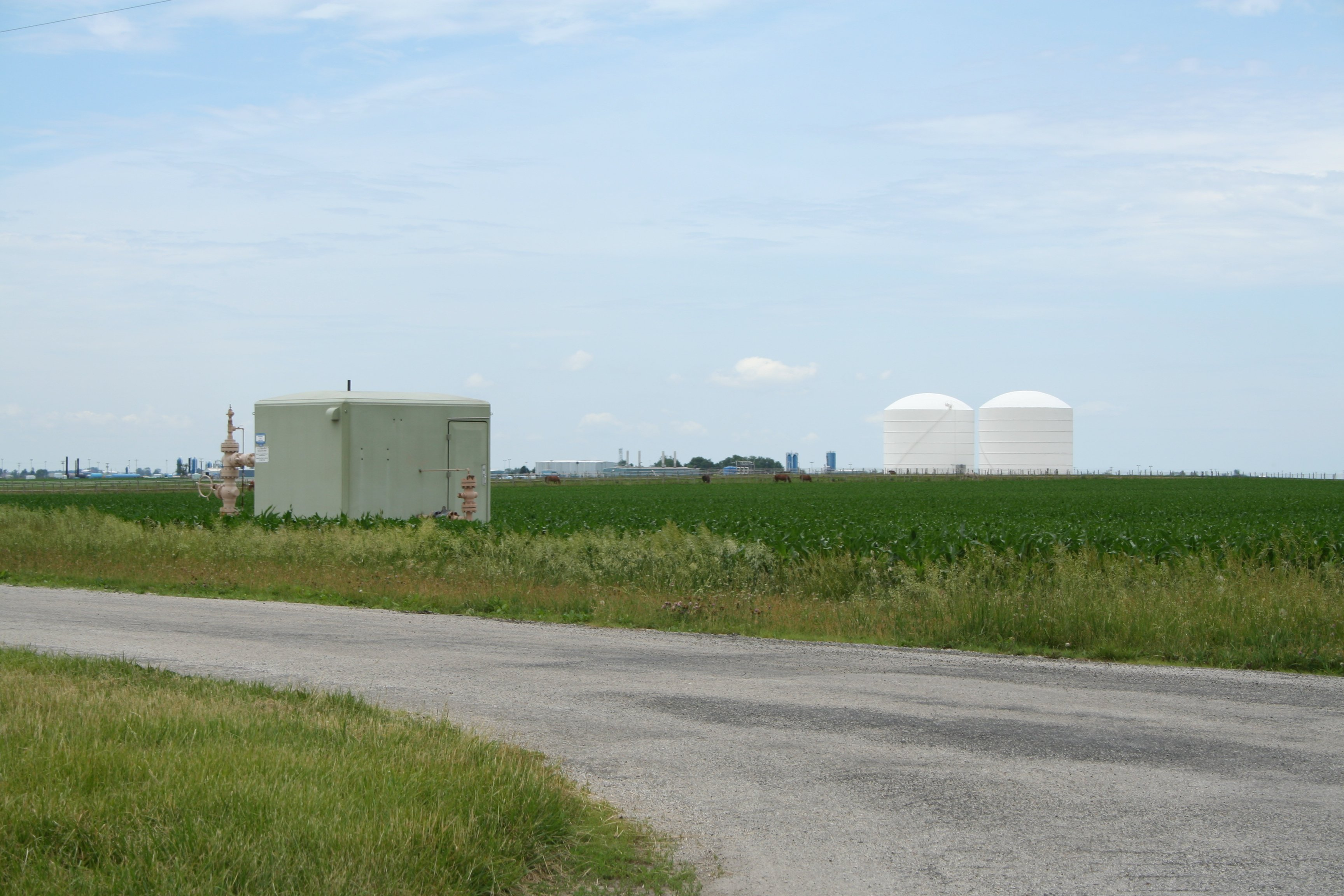 Manlove Field Natural gas storage area operated by Peoples Gas Light & Coke Company.(40°14′33″N 088°25′17″W / 40.2425°N 88.42139°W)